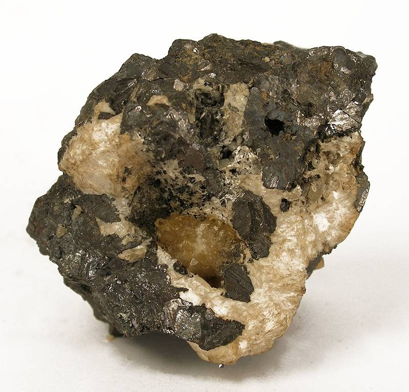 Matlockite Locality: Cromford, Matlock, Derbyshire, England, UK (Locality at ) Size: 3.4 x 3.2 x 2.1 cm. This is a superb, sharp, 9mm matlockite crystal in matrix of galena. Matlockite is exceptionally rare, especially in nice fat crystals such as this. From the type locality.